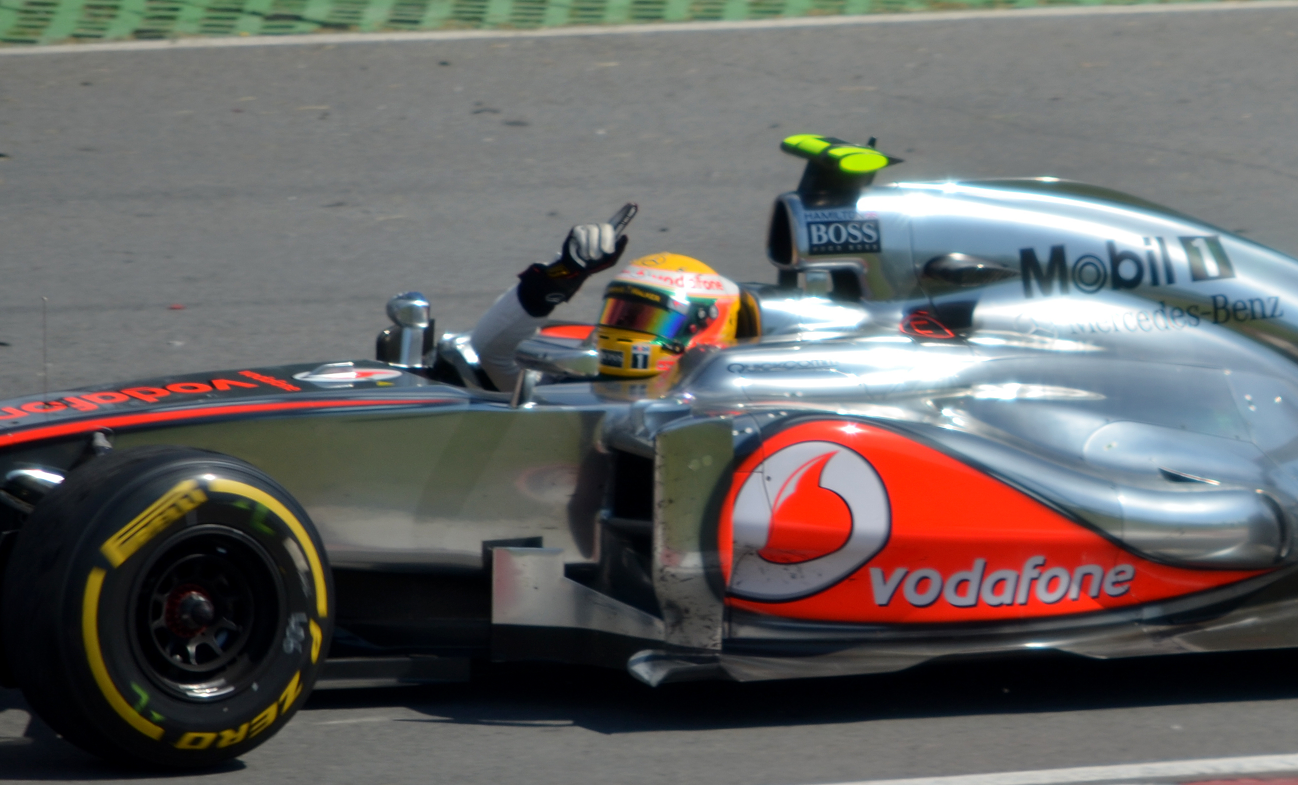 Lewis Hamilton celebrates victory in the 2012 Canadian Grand Prix at Circuit Gilles Villeneuve in the McLaren - Mercedes MP4-27.